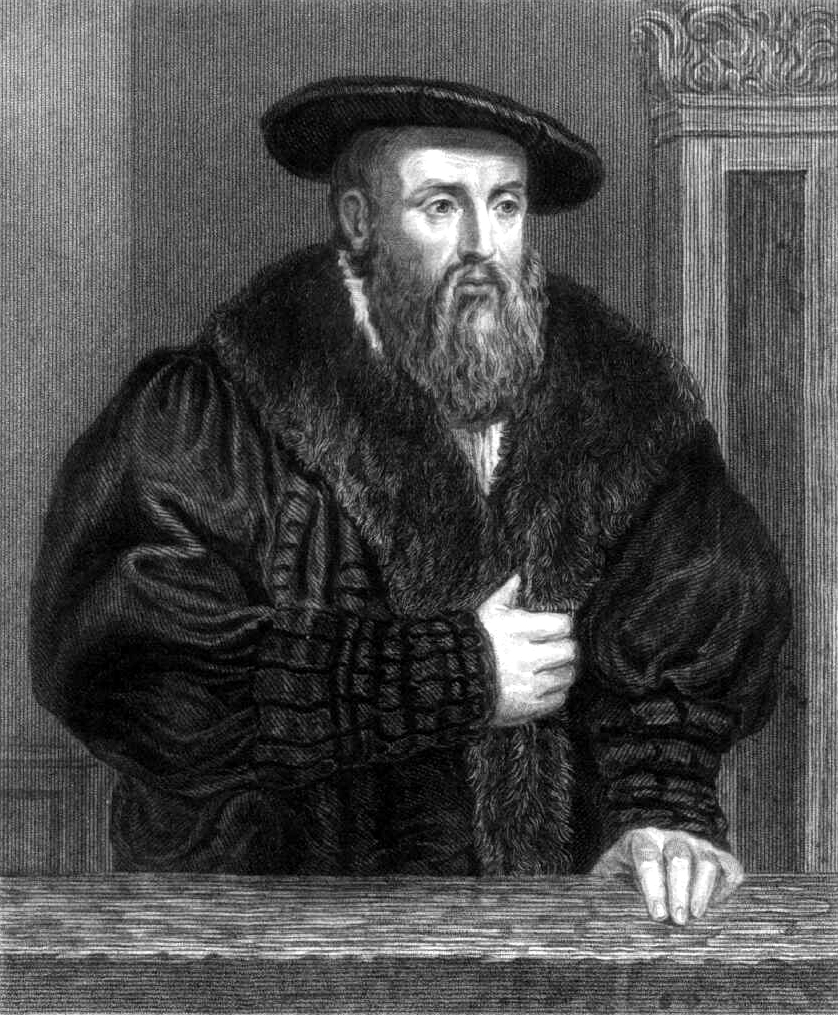 Line engraving of Johannes Kepler by Frederick Mackenzie